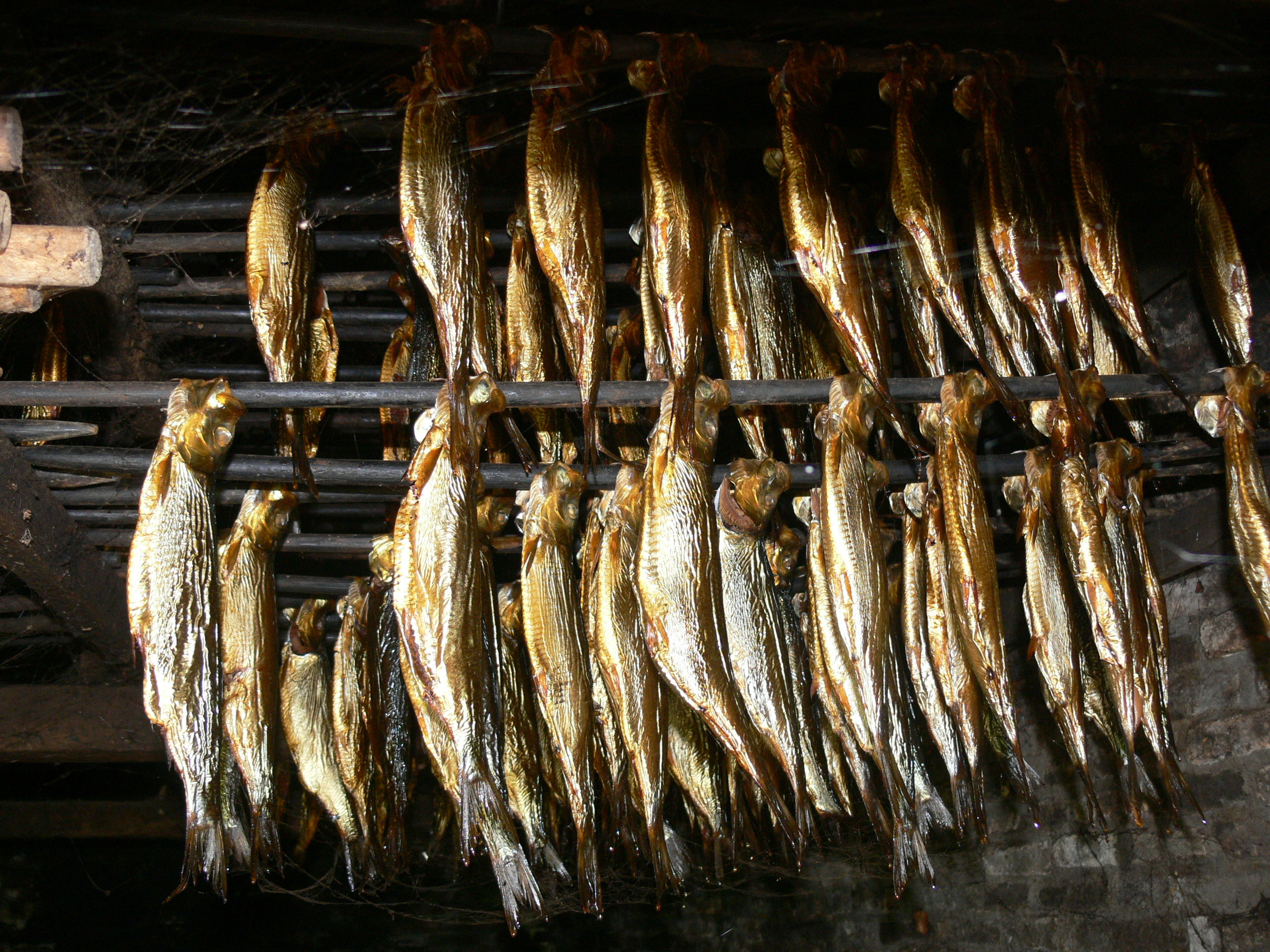 Zuiderzeemuseum. Smoked herring